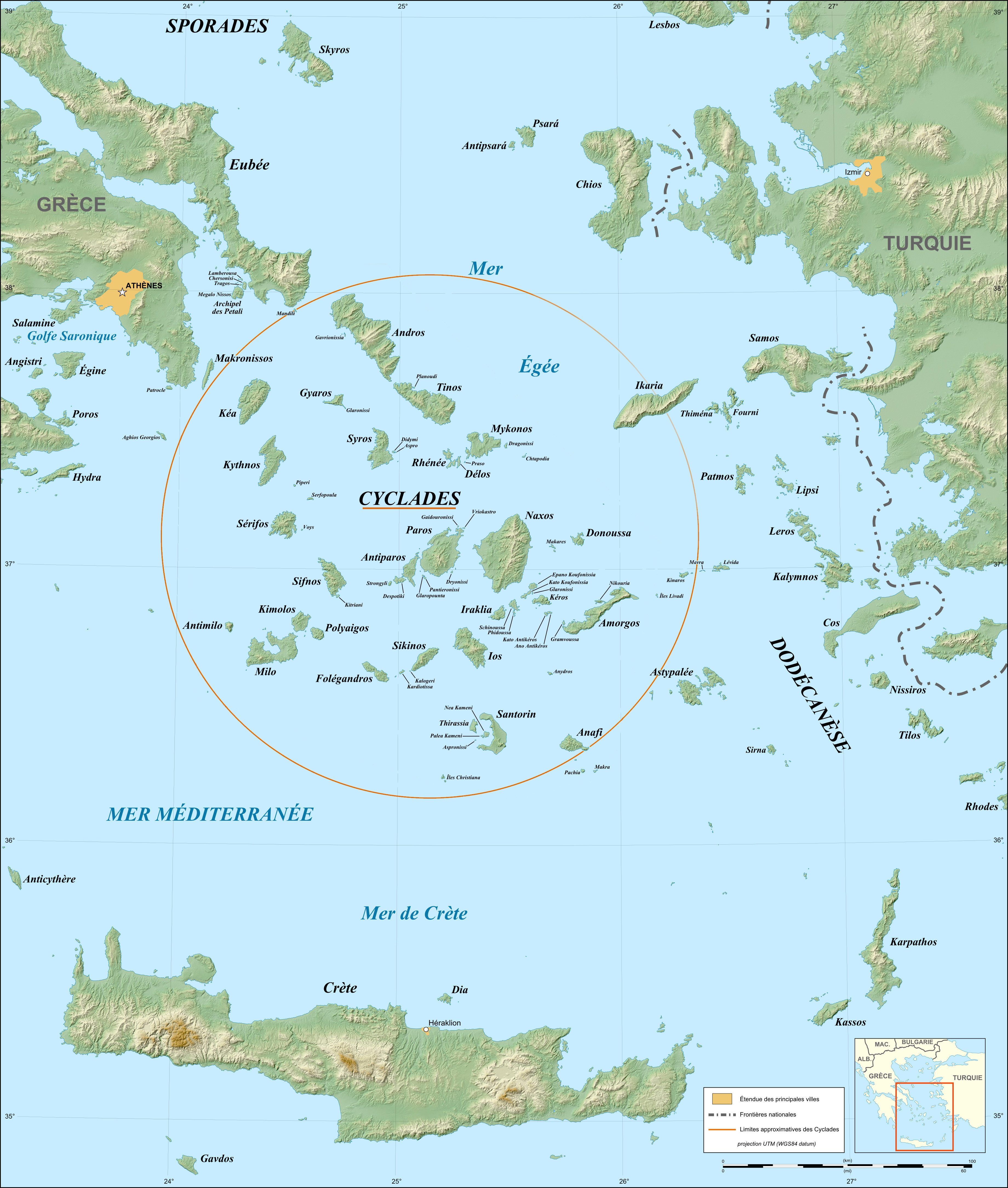 Map in French of the Cyclades islands, Greece.